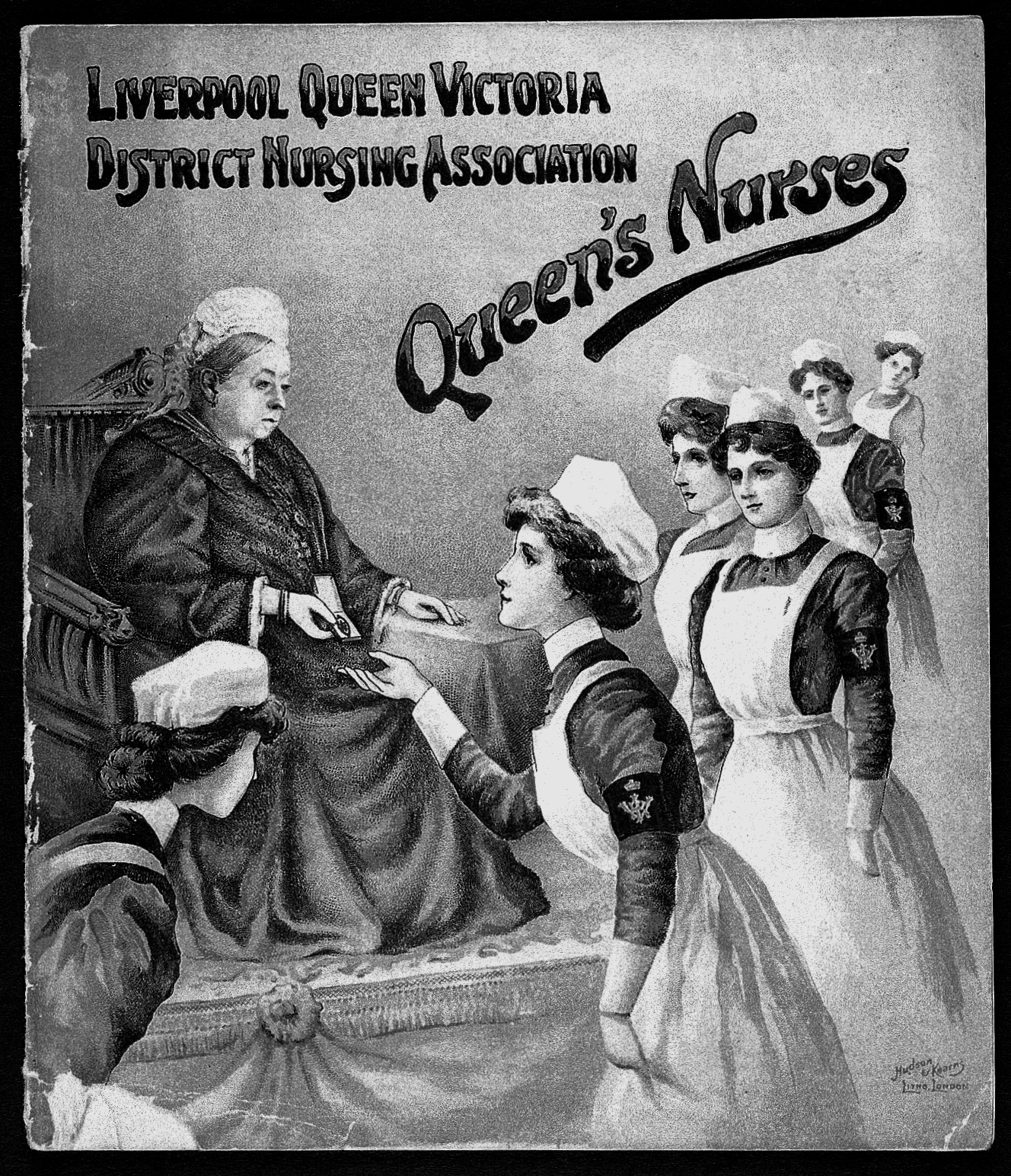 Cover of booklet on the Liverpool Queen Victoria District Nursing Association, showing Queen presenting badges to a line of nurses in uniform. Archives & Manuscripts Keywords: liverpool; queen victoria; Nurses